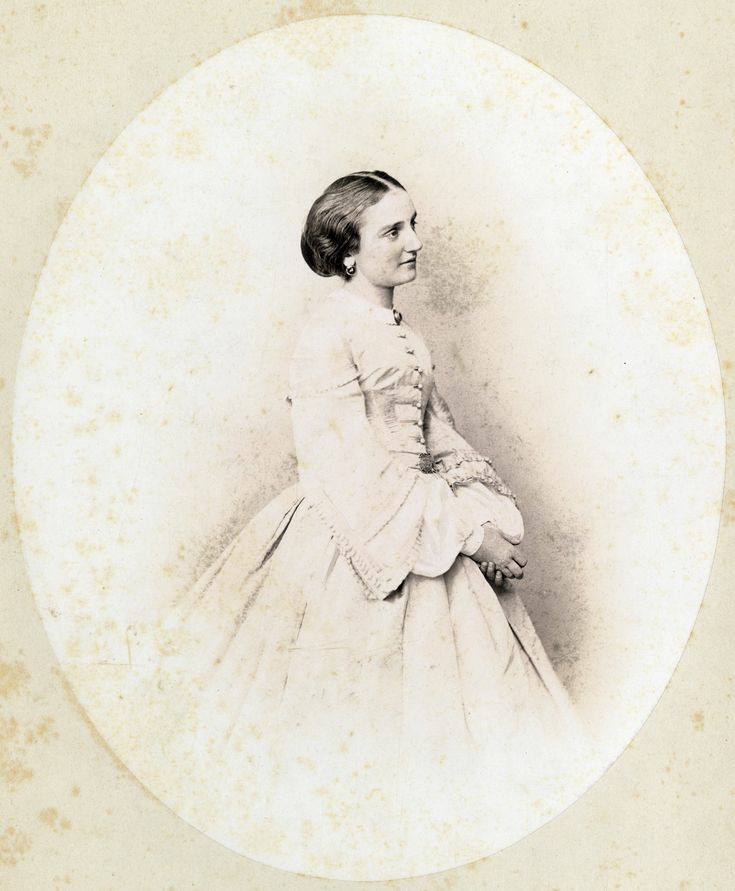 Princess Sophie of Saxony (1845-1867), daughter of King John I. of Saxony, wife of Duke Karl Theodor in Bavaraia